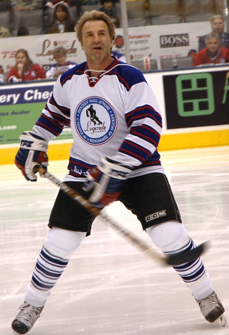 Glenn Anderson played with the All-Star Legends 2008 in Toronto